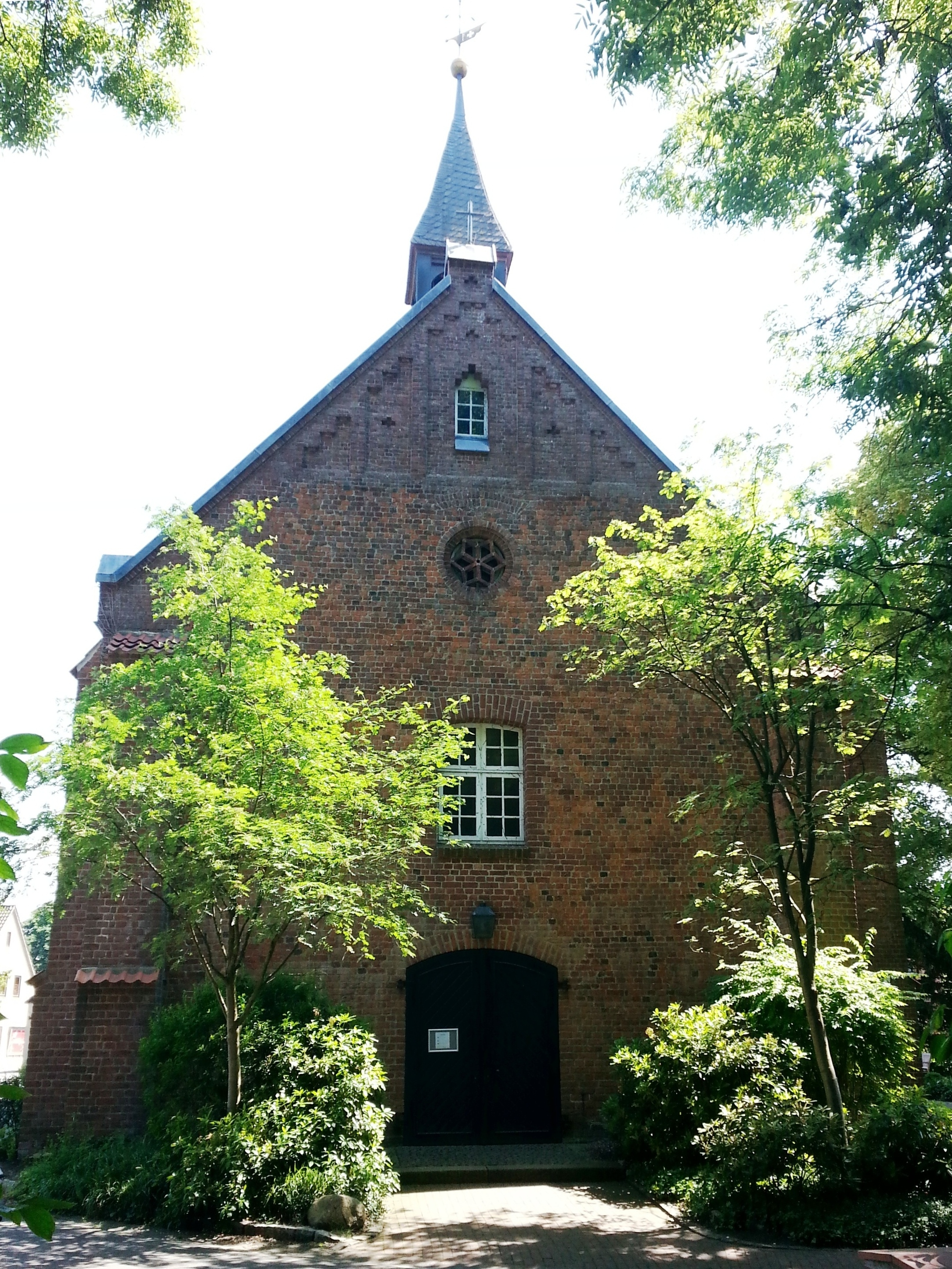 The St. Mary's Church in Himmelpforten, Lower Saxony, Germany. View from west.